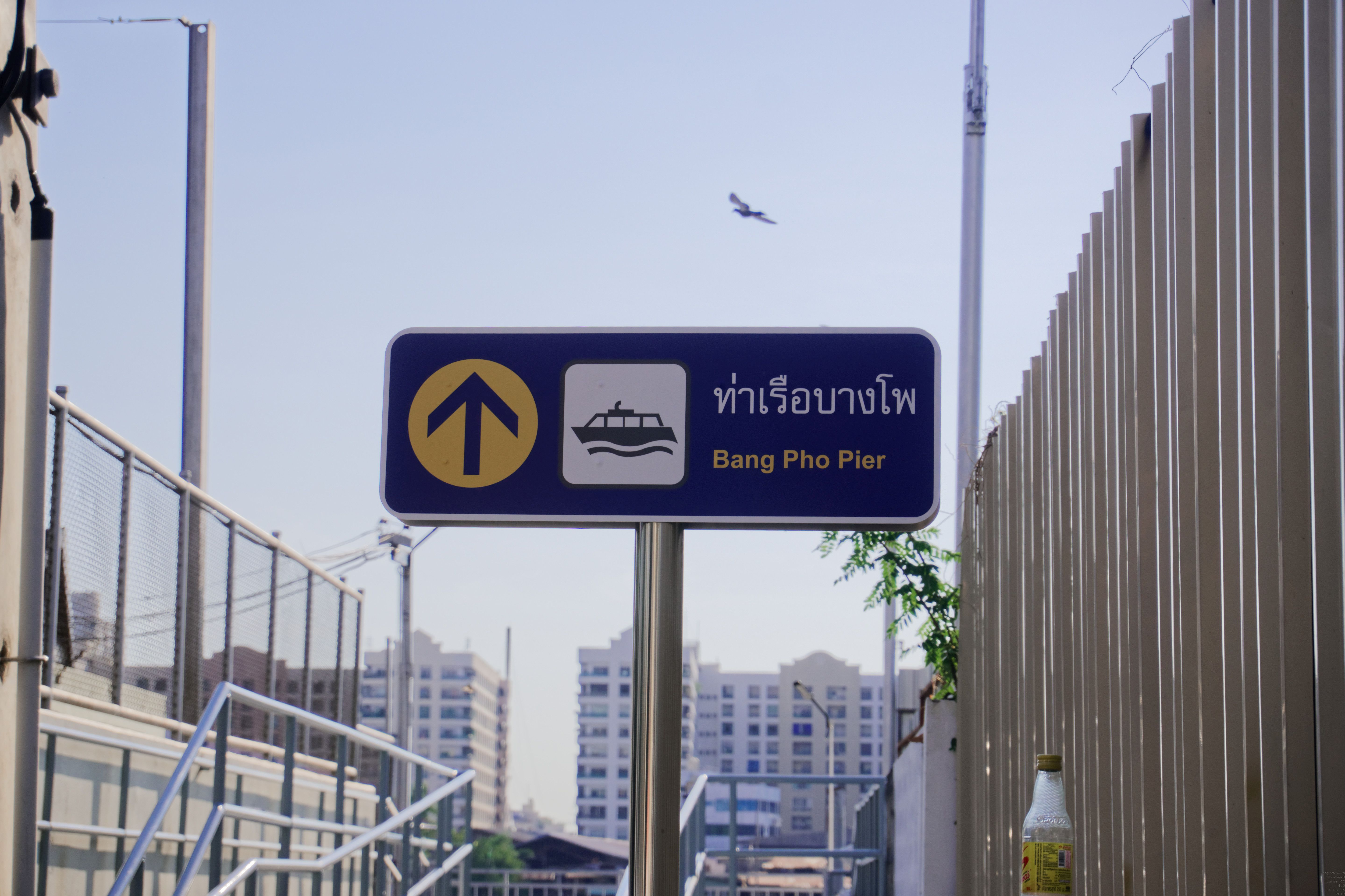 MRT Bang Pho - Bang Pho pier sign